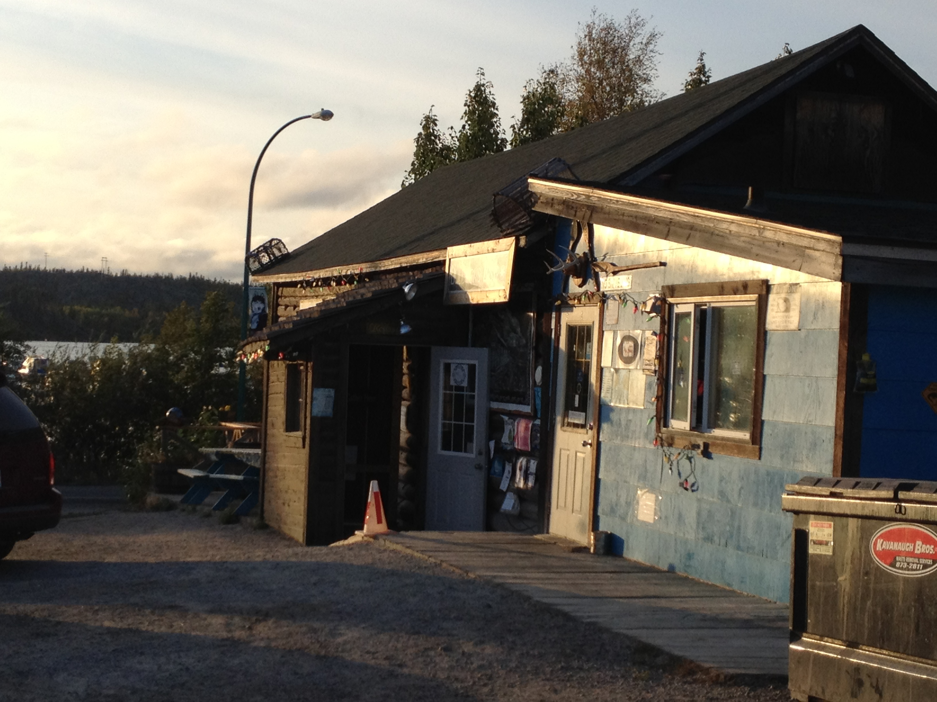 3535 Wiley Road, Yellowknife, Northwest Territories, X1A, Canada. Bullocks Fish and Chips, Yellowknife at sunset